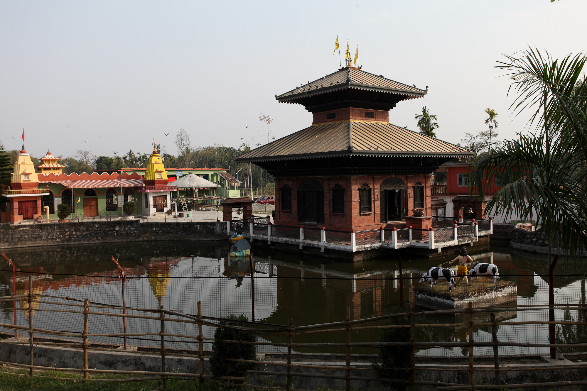 Arjun Dhara Temple Jhapa mechi zone